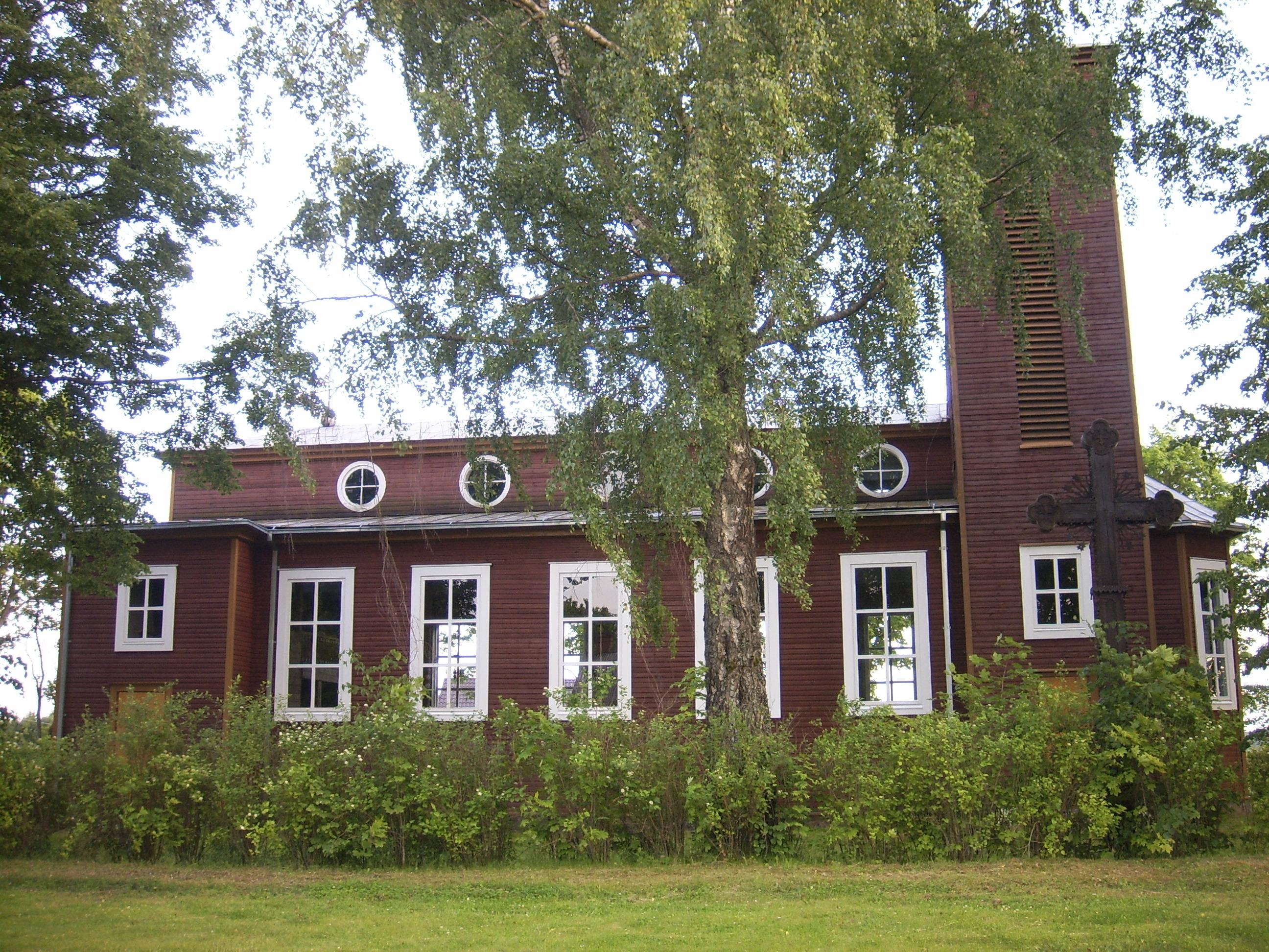 Churche in Biliakiemis, Lithuania